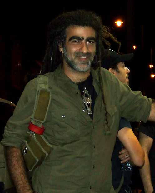 Mosh Ben Ari after a performance in Jerusalem